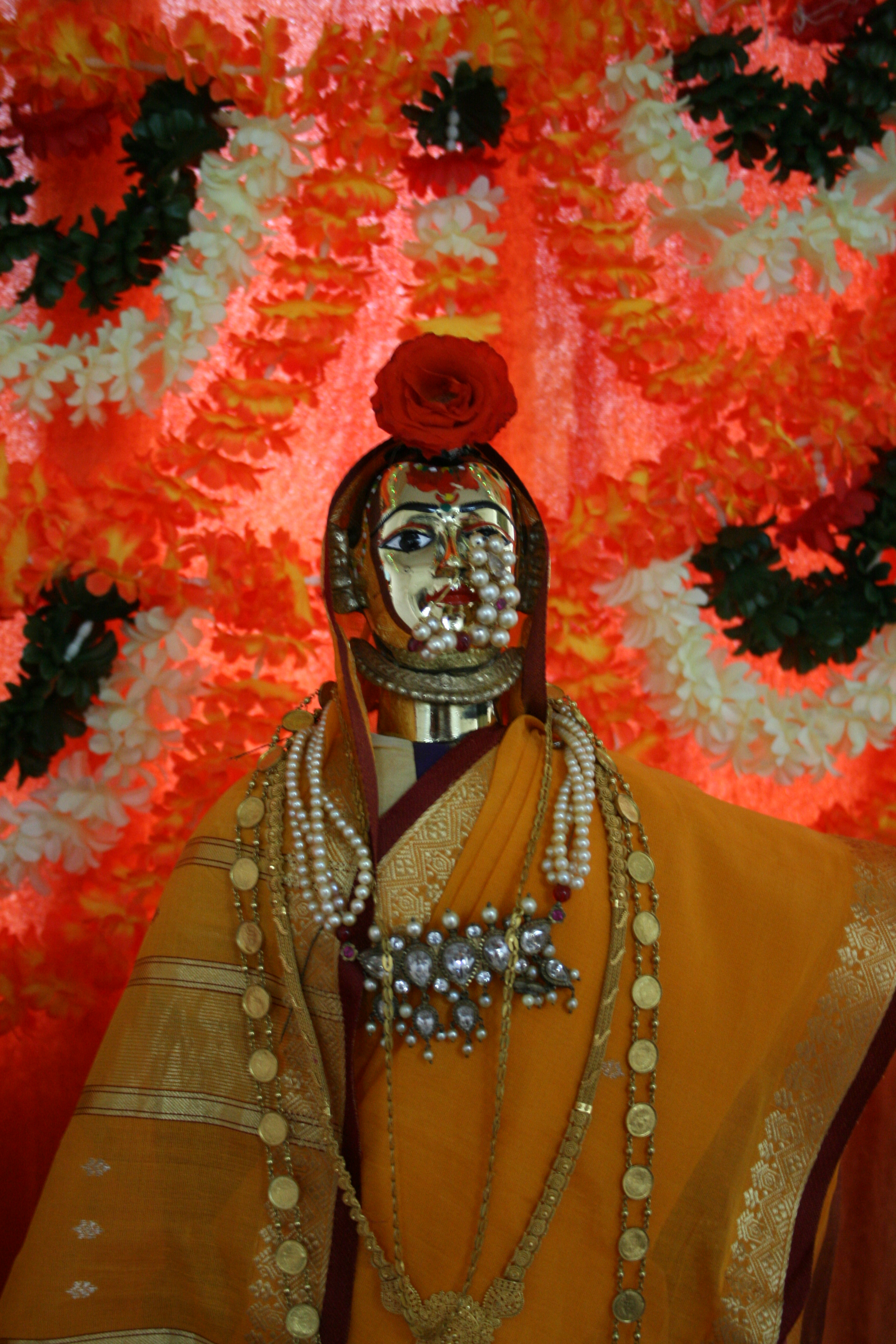 Parvati worshipped as Gauri